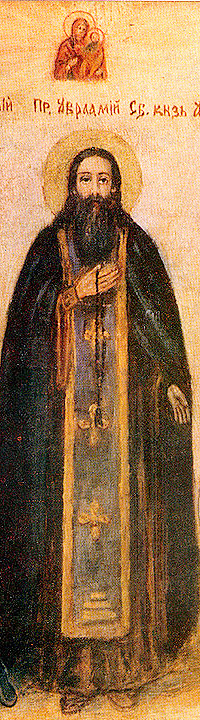 Photograph of Russian icon